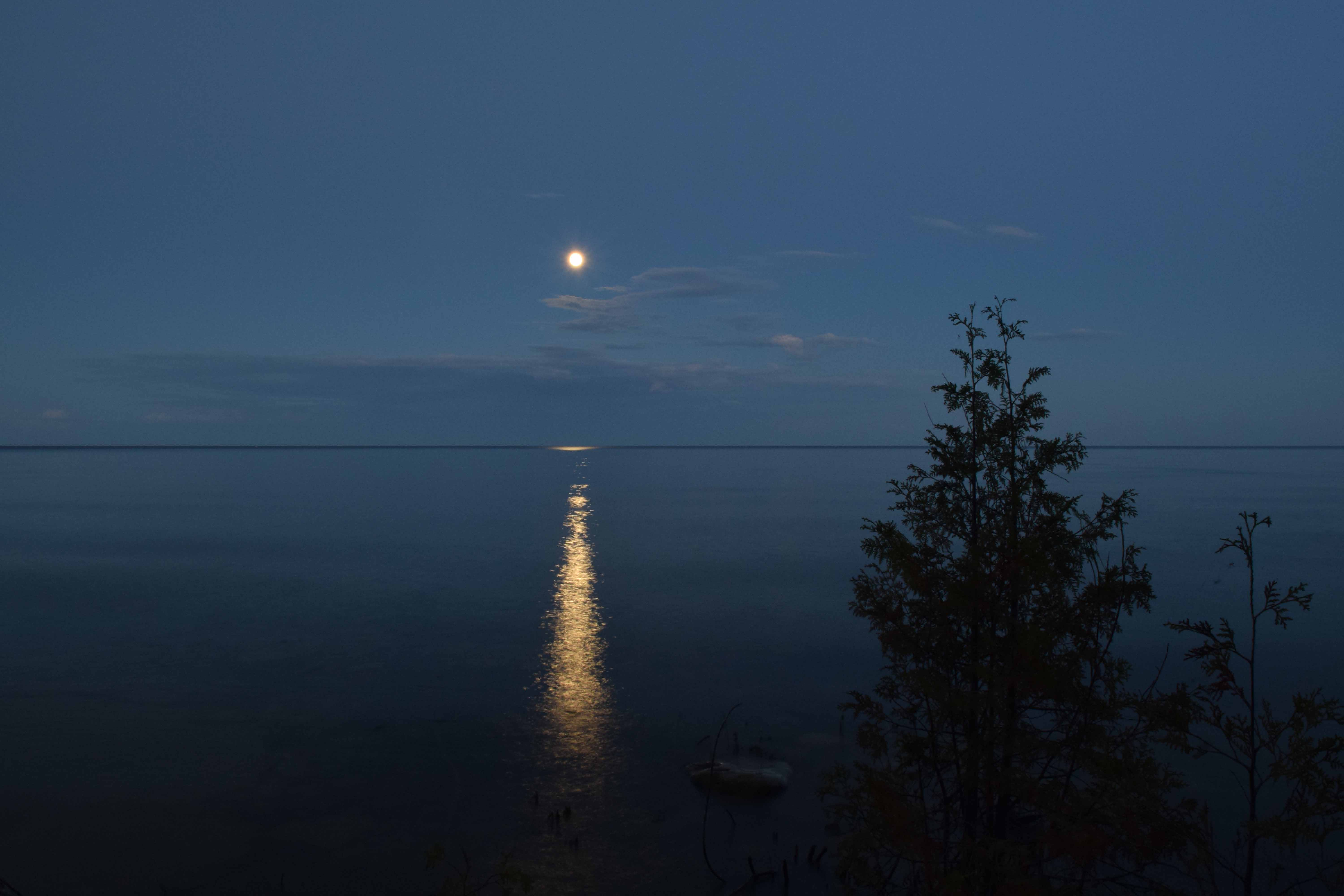 Moon rising over Lake Michigan